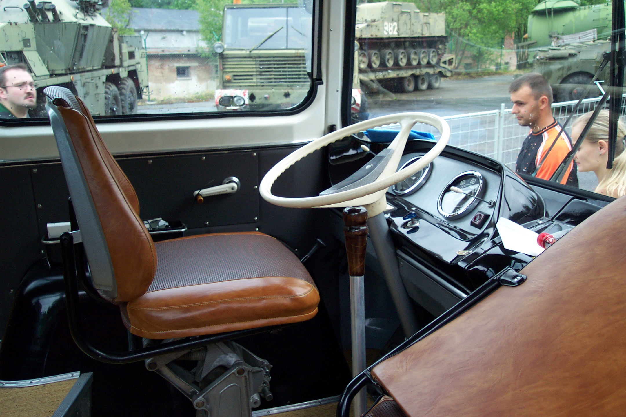 Renovated bus type Karosa ŠD 11, of the company of ČSAD Jihotrans with trailer, drivers cabine